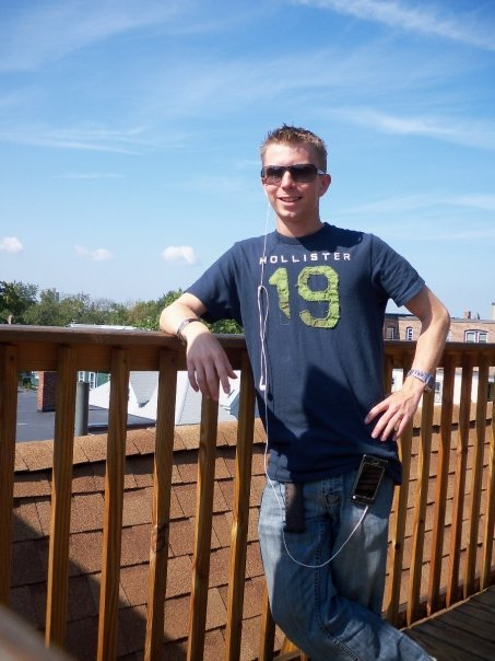 Chelsea Manning (known as "Bradley Manning" at time photo was taken)